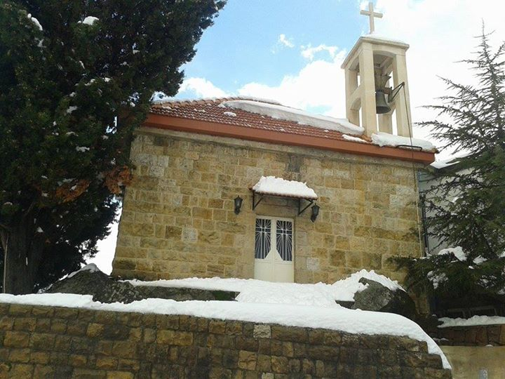 كنيسة مار زخيا-المغيري